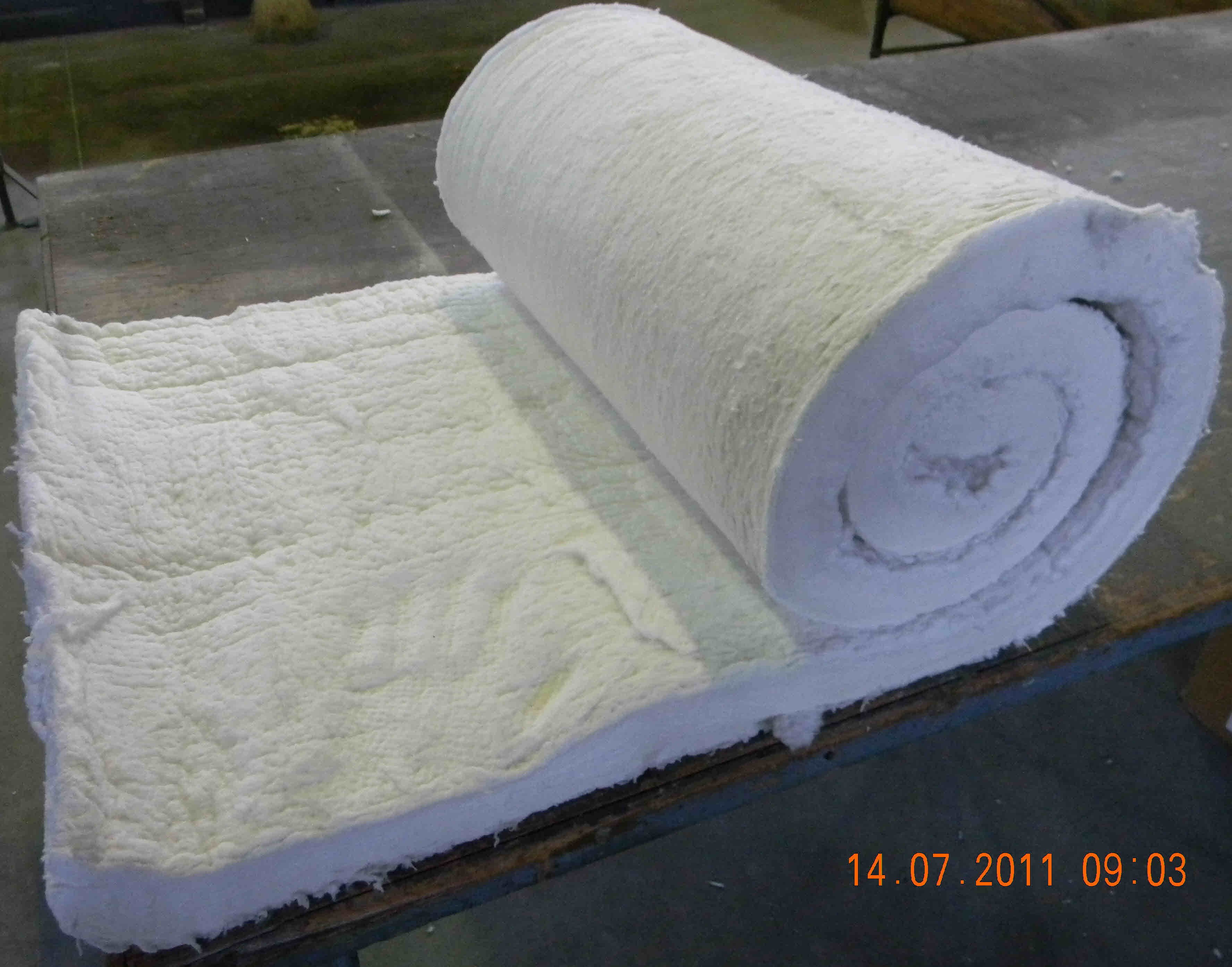 50mm thick roll of ceramic fibre insulation.